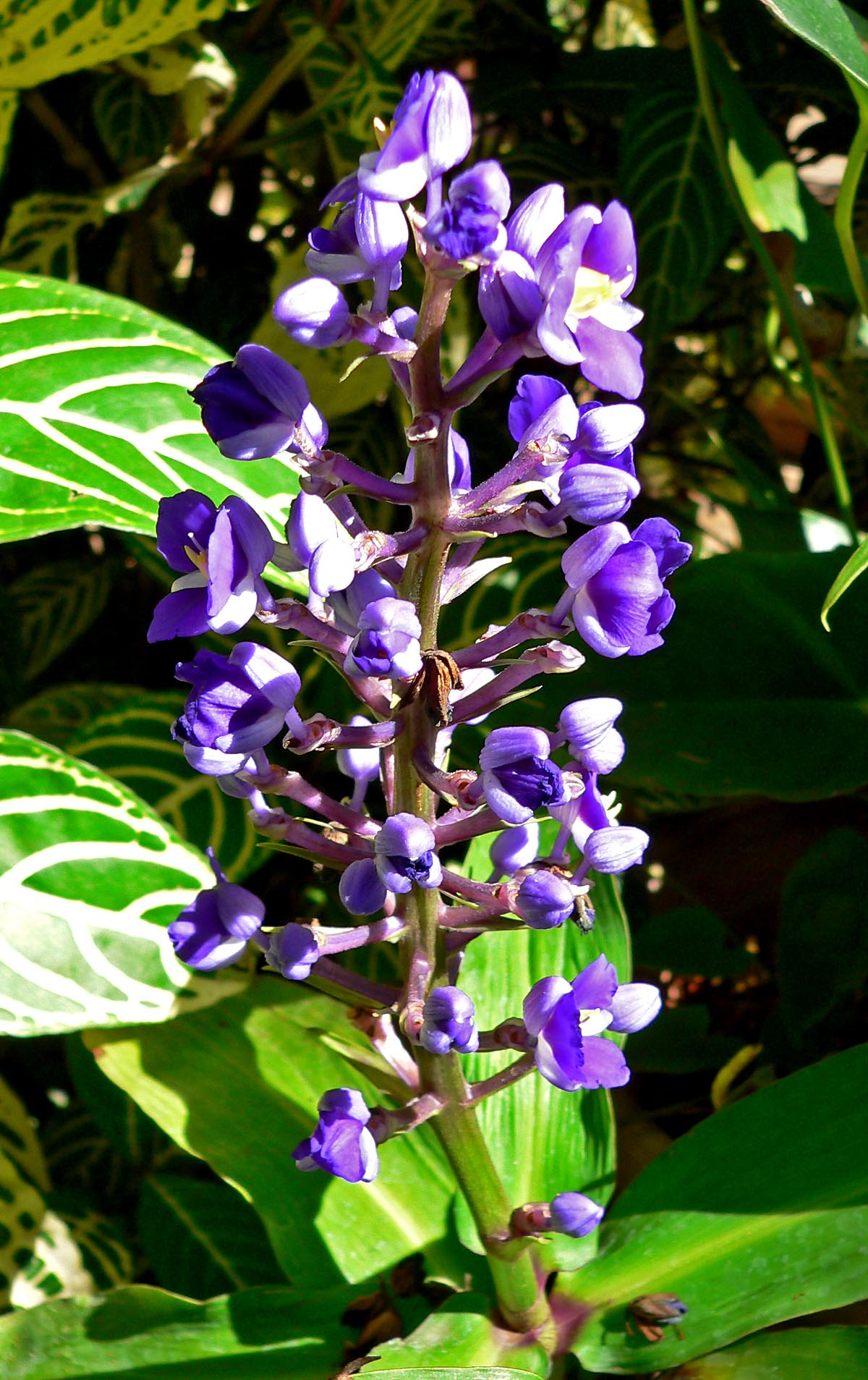 Photo of Dichorisandra thyrsiflora at Balboa Park